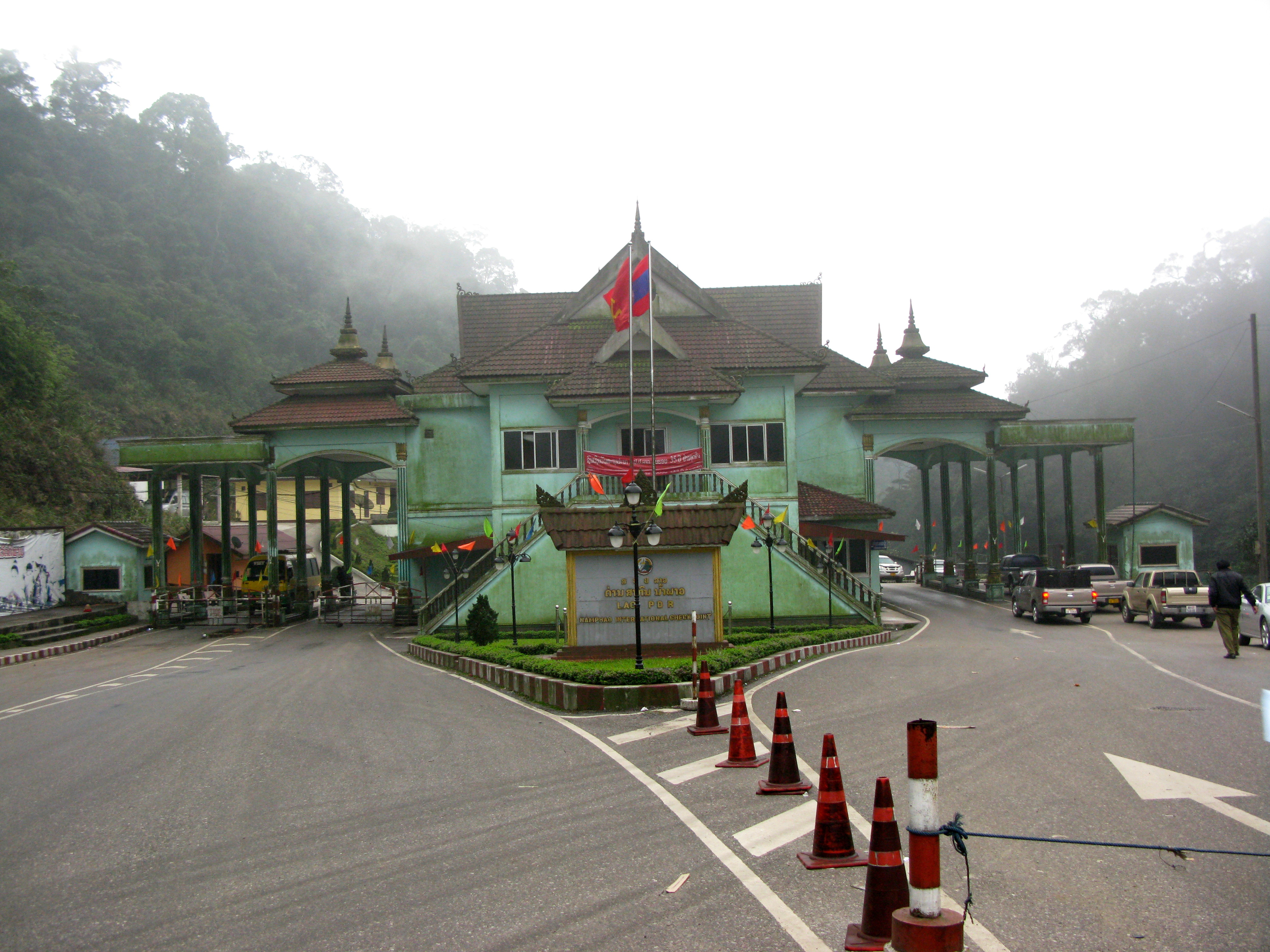 The checkpoint at Namphao international border gate, Lao P.D.R.